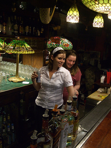 bartenders at Eddie Rickenbacker's bar in San Francisco, California, one of the city's last remaining fern bars